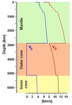 Velocities of S-waves and P-waves in the Earth's interior.